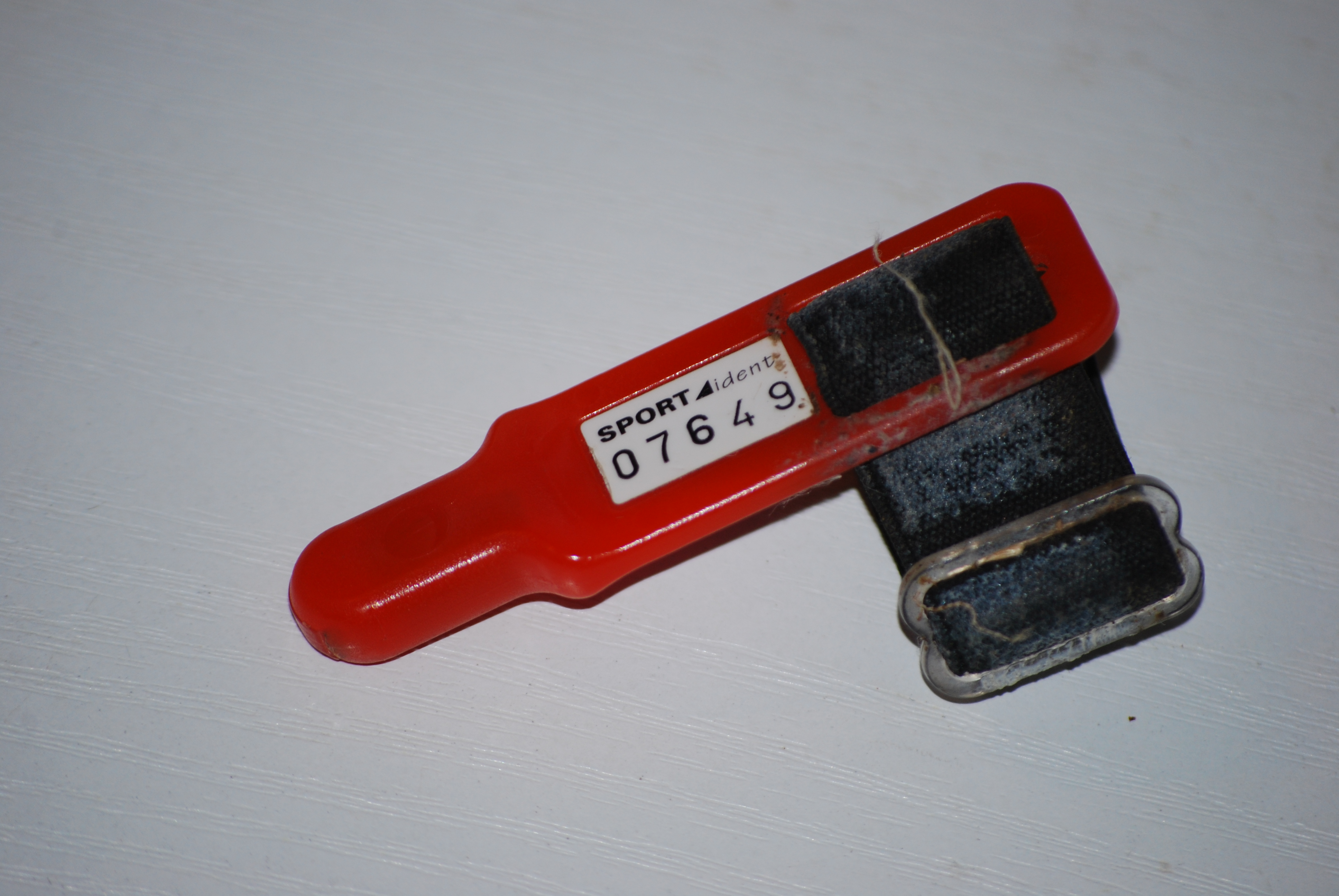 SPORTident stick. punching system for Orienteering